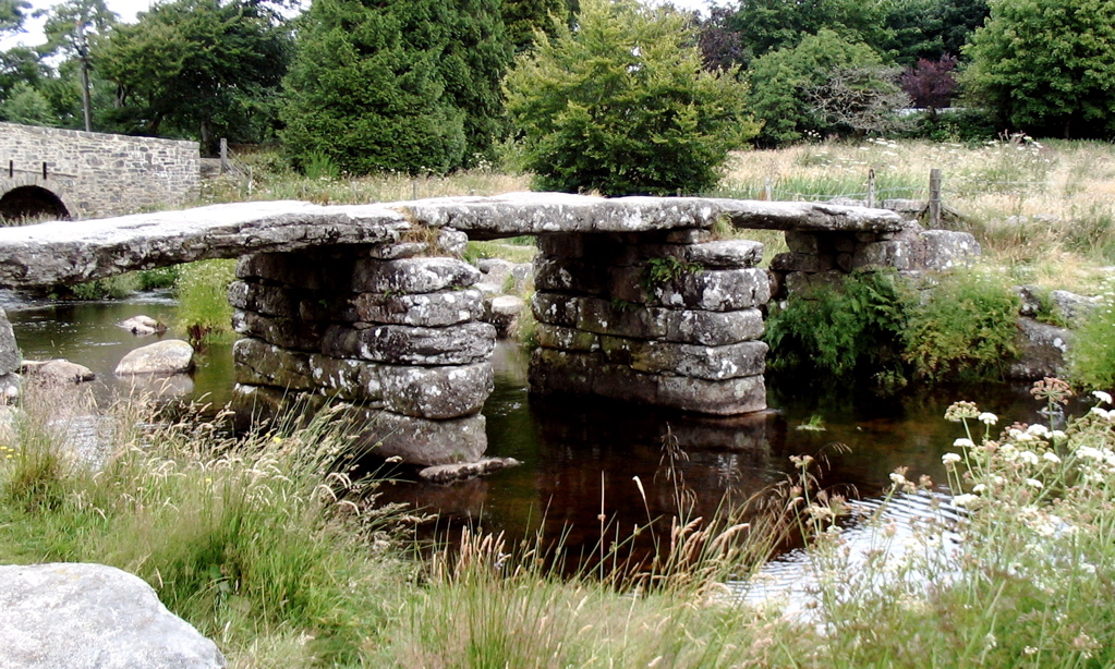 The Clapper Bridge at Postbridge, in Dartmoor, England. Taken by me and released into the Public Domain.